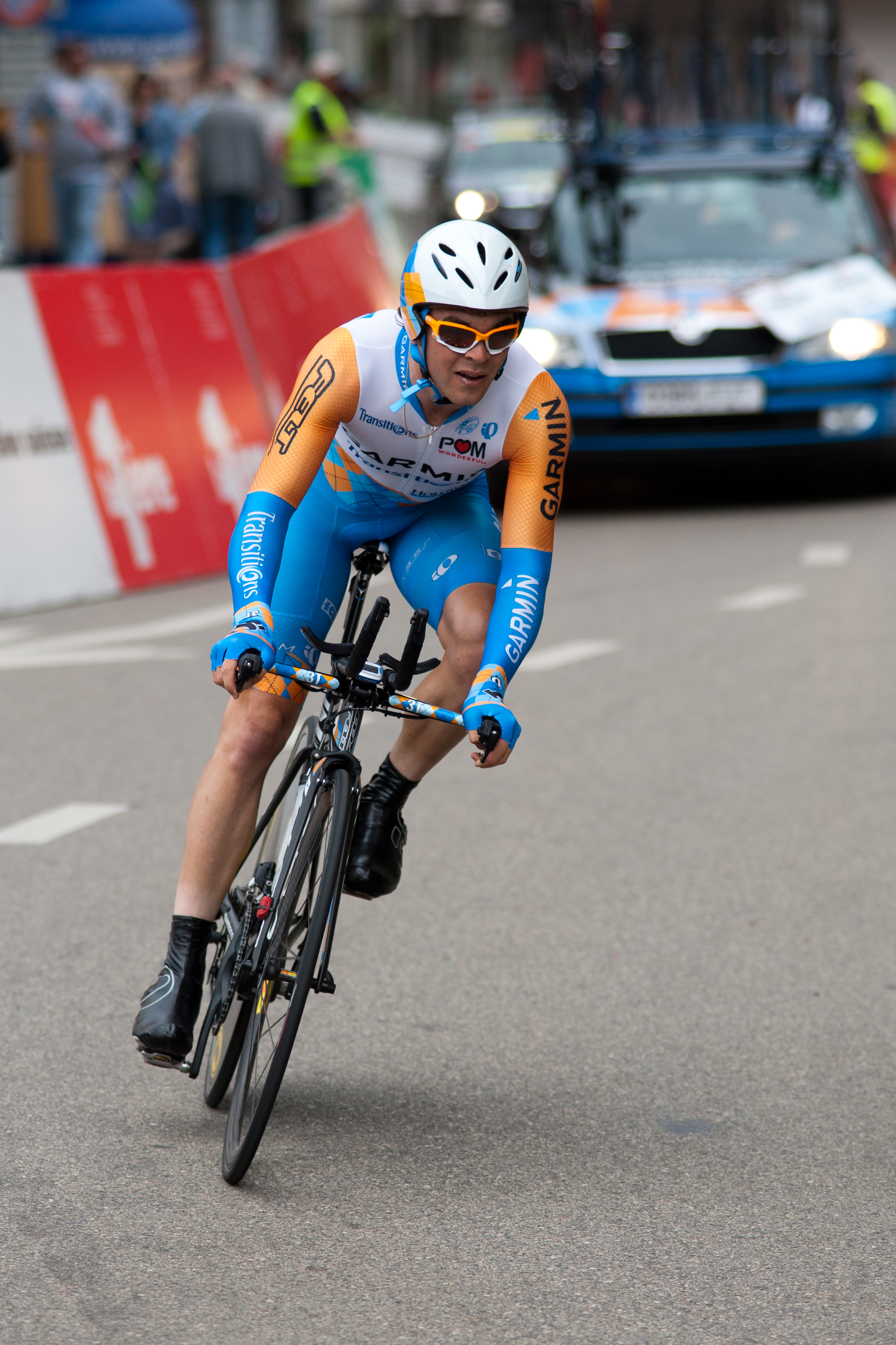 Jack Bobridge during the 3rd stage of the Tour de Romandie 2010.